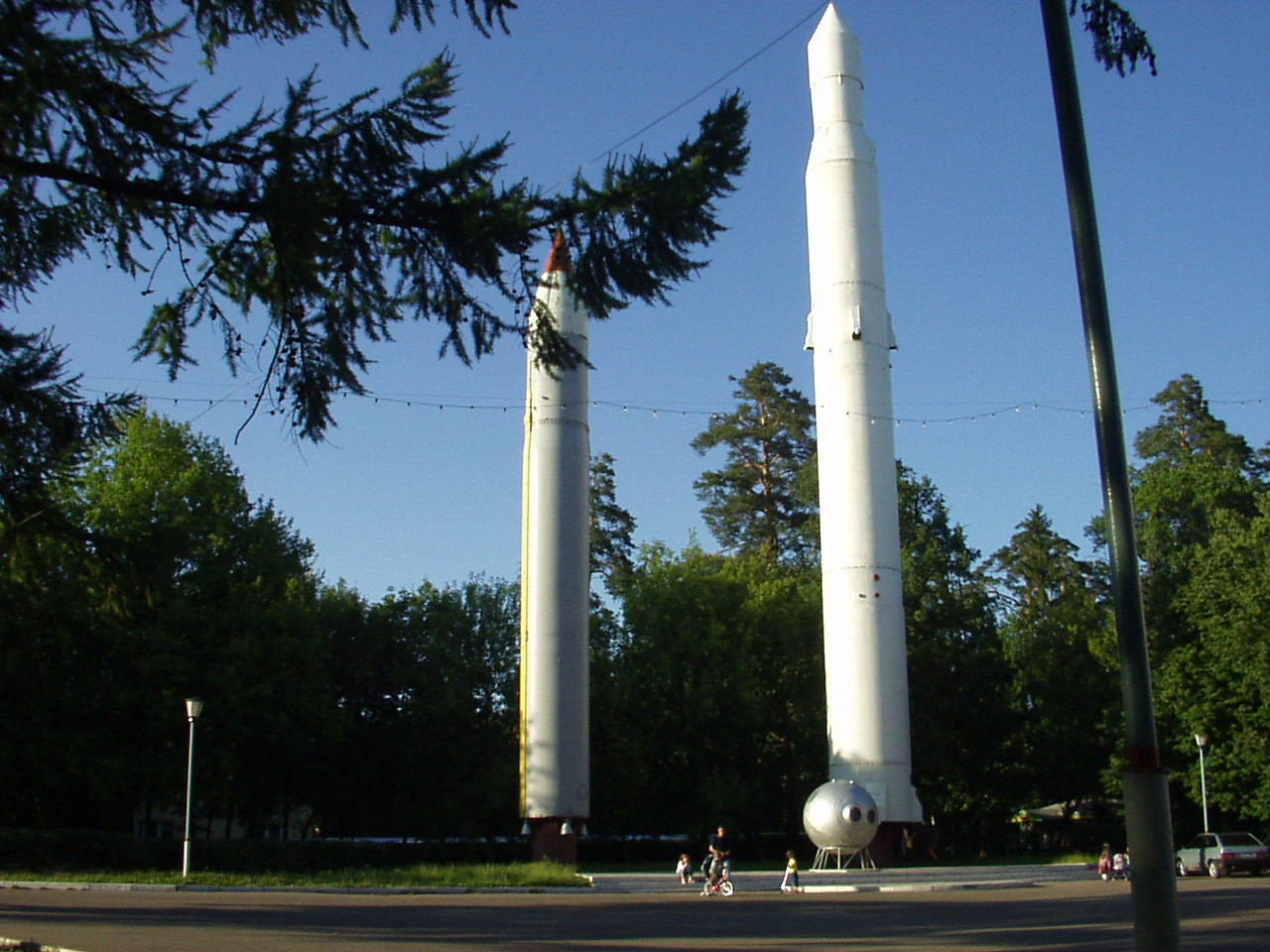 Vlasikha town in Moscow oblast